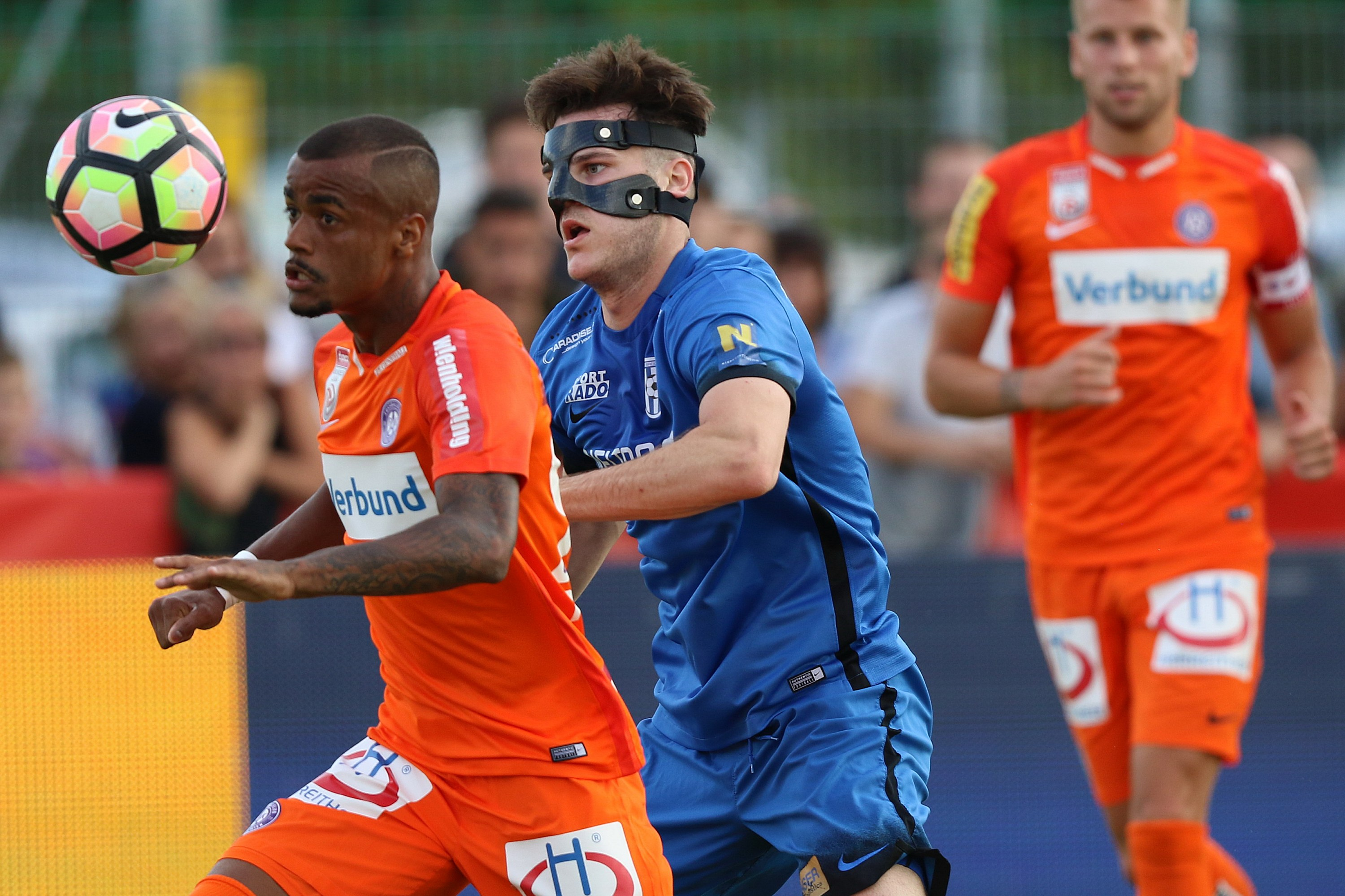 2017–18 Austrian Cup - ASK Ebreichsdorf (blue shirts) vs. FK Austria Wien (orange shirts) 0-0, penaltyscore 3-4. – The photo shows from left to right Felipe Pires, Maximilian Balzer and Alexander Grünwald.